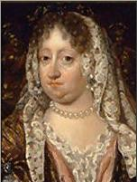 Painting of Queen Sophie Amalie by an unknown artist